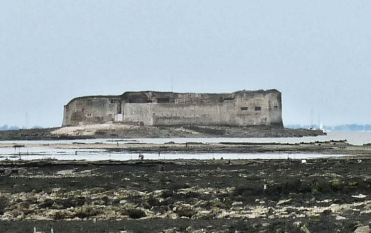 Fort Enet Pointe de la Fumee